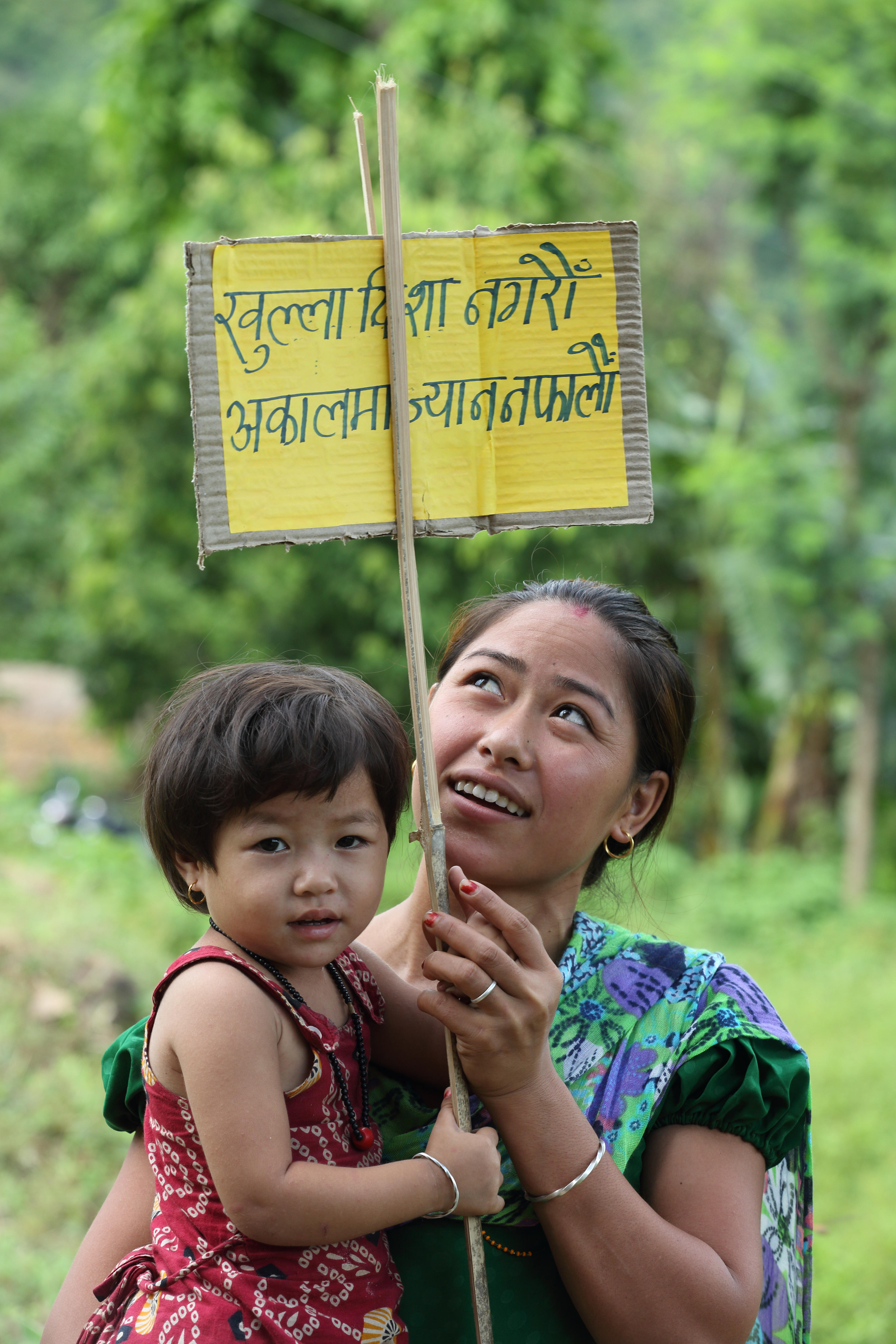 Meena Shrestha and her daughter with a sign that says “Don’t defecate in the open. Don’t put your life at risk” at the community office at WASH User group , Dhangle Tallo Khanitar WASH Project, Udayapur District, Nepal. Photo by Jim Holmes for AusAID. (13/2529)